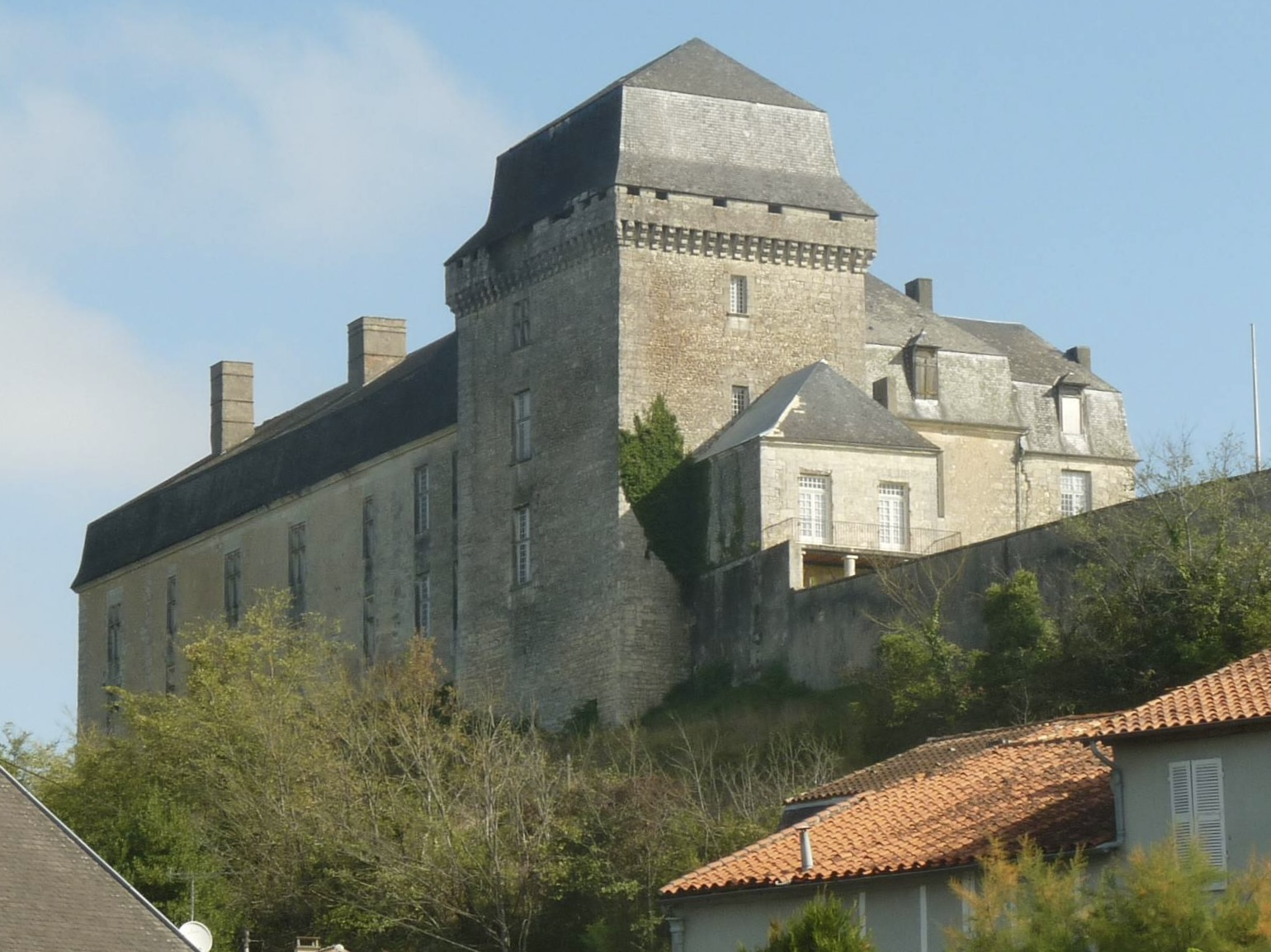 castle of Chalais, Charente, France